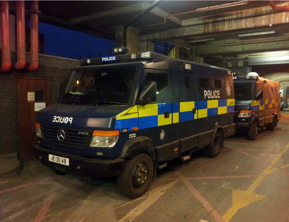 Protected Escort Vehicle of The Ministry of Defence Police